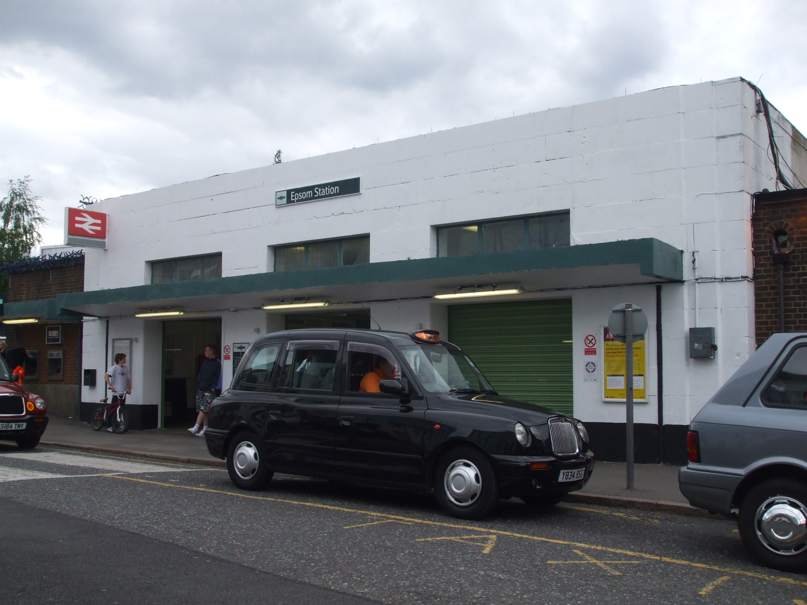 Epsom station building in 2009, with its entrance on the southbound side